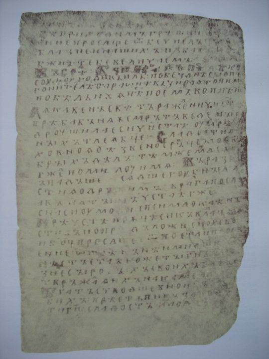 Bitolya Lists